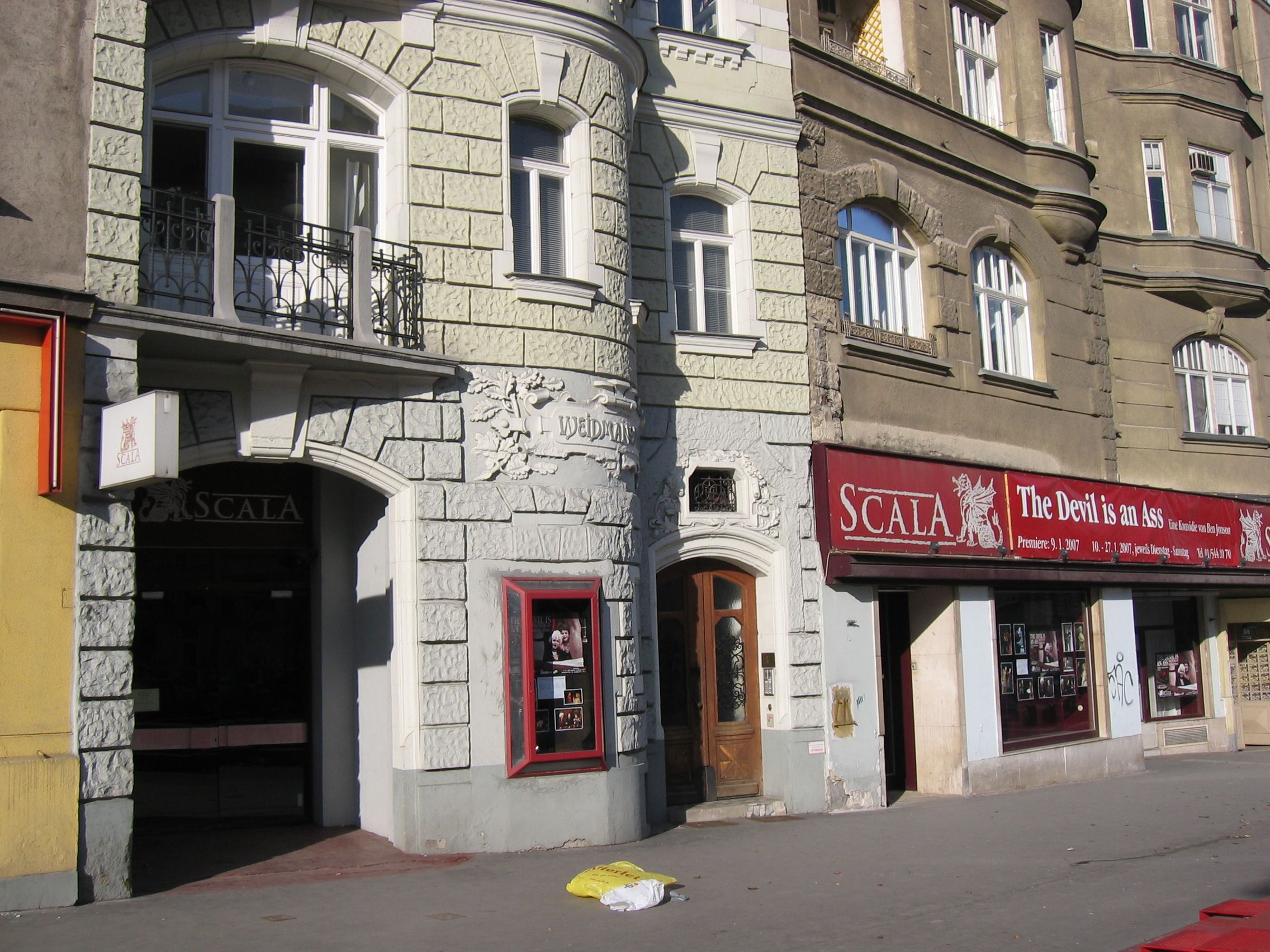 Theater Scala in Margarten